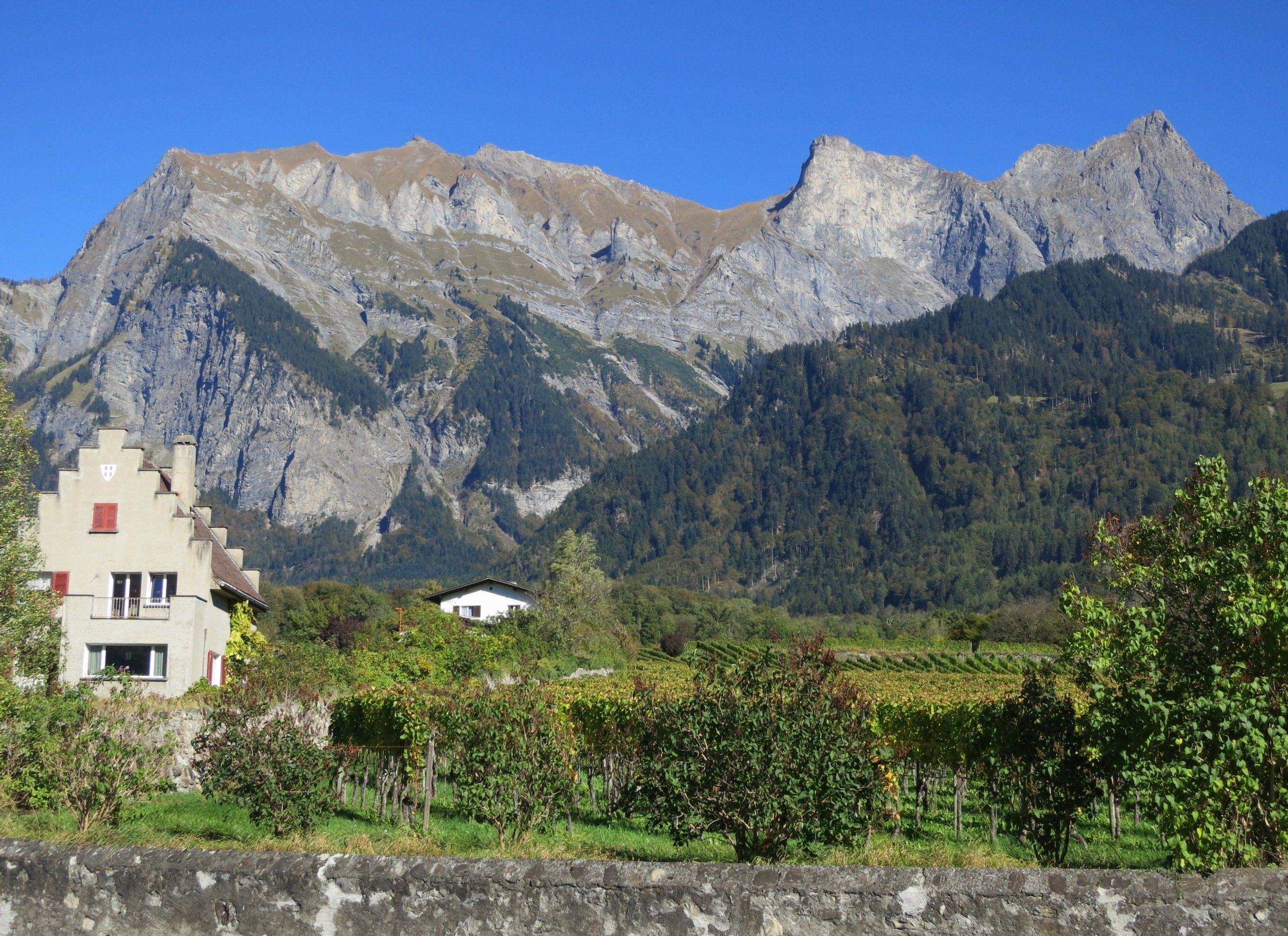 Photograph taken from the Maienfeld area, Switzerland. The mountains visible across the horizon are Mazorakof/Falknishorn (on left with steep cliffs to left), Falknis (top of ridge where there are 3 small tops), Vorder Grauspitz (with steep shadowy area on left), Hinter Grauspitz (far right).